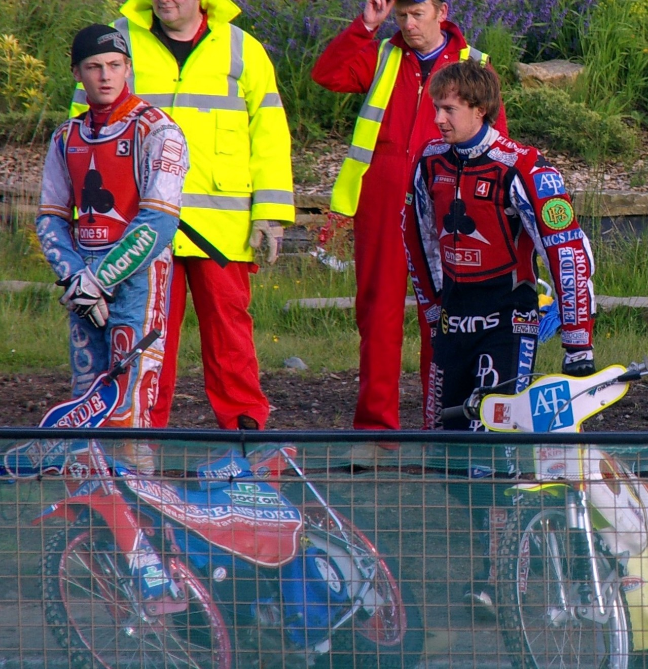 Darcy Ward, guesting for Belle Vue, normally rides for King's Lynn is on the left. On the right is James Wright who used to ride for Workington Comets.